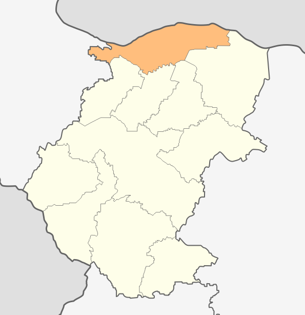 Map of Lom municipality, Montana Province